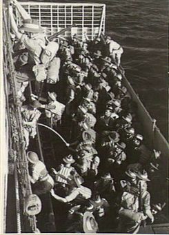 Troops on HMS Empire Spearhead training in Exercise Octopus.